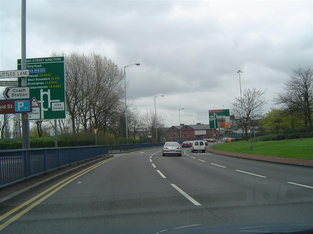 Wolverhampton Ring Road St Patricks, April 2004 Clockwise carriageway